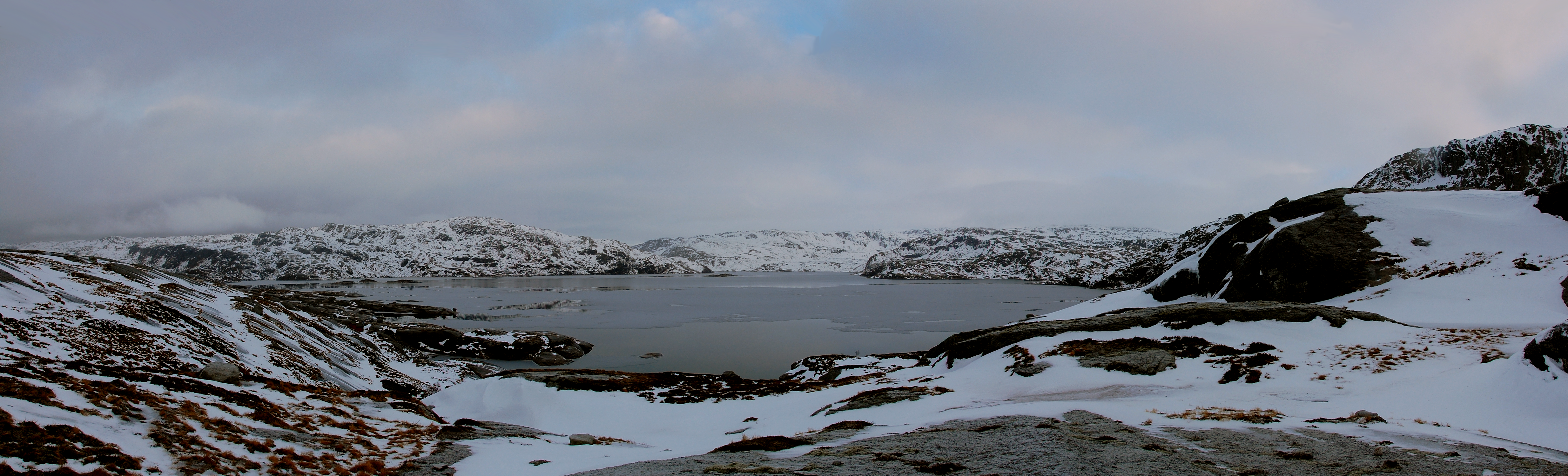 Løkjelsvatnet in Etne, Hordaland, Norway.